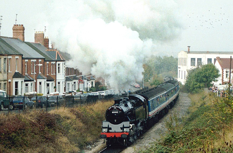 A rather grainy shot of Standard 4 tank 80080 climbiing the bank at Dingle Rd, Penarth in 1991 as part of the Taff Vale 150 celebrations. 1 in 37 quite steep for a train.